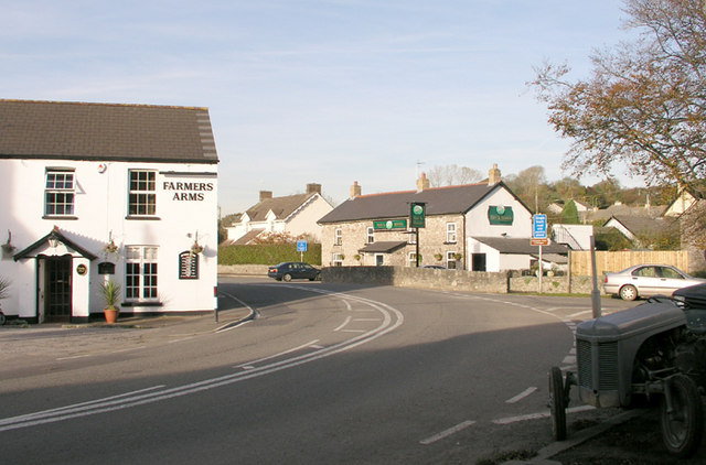 Aberthin Two pubs, The farmers Arms and the Hare and Hounds, in the centre of this small village on the A4222